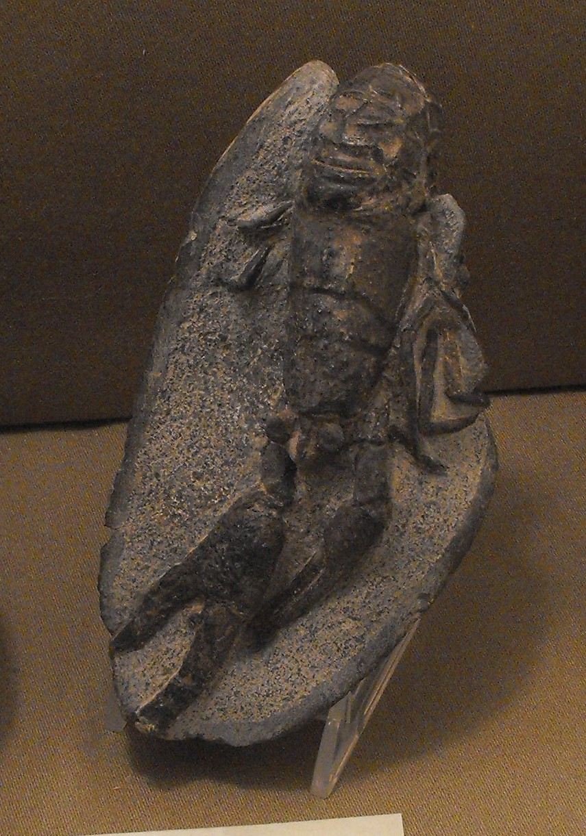 Fossil lobster Palaeonephrops browni from the Cretaceous Bearpaw Shale in Montana, on display at the San Diego County Fair, California, USA.